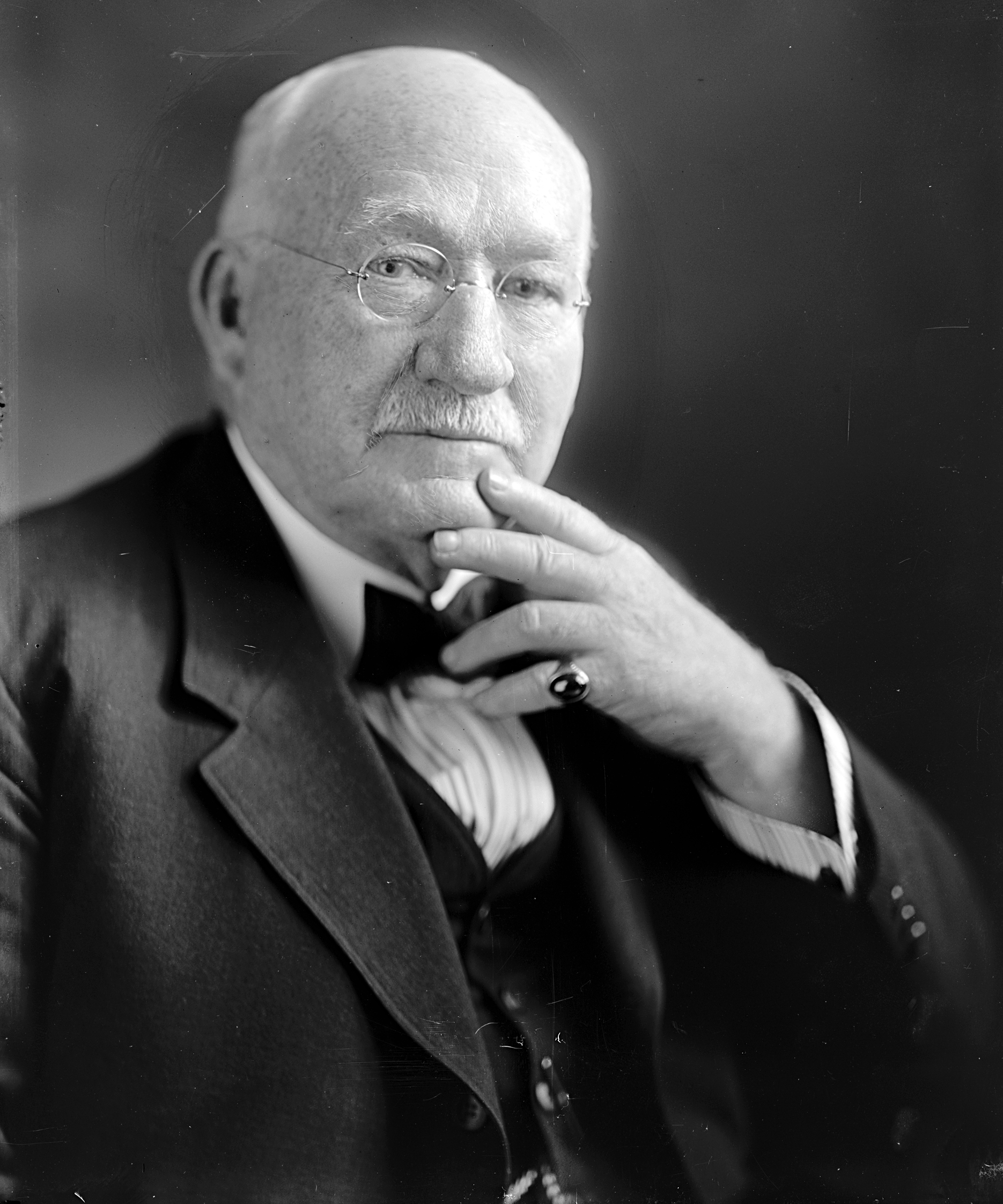 Albert Blakeney, US Representative from Maryland